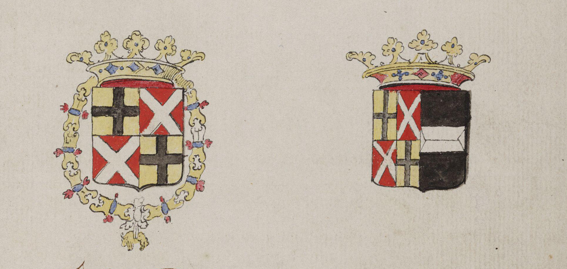 pagina uit het Handschrift De Hooghe